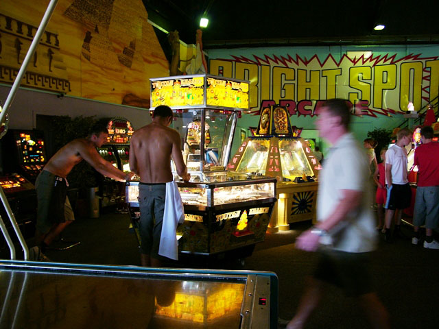 New Brighton indoor funfair. There used to be a lot more rides here but the rear half has been closed off and is now a dance studio.